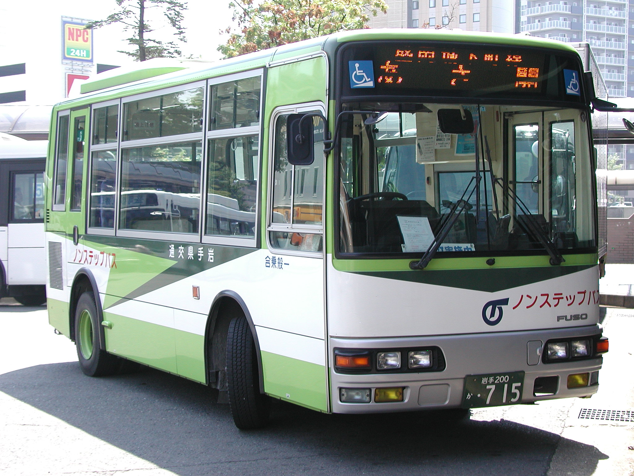 Fuso Aero Midi ME for Iwateken Kotsu transit bus at Morioka Station